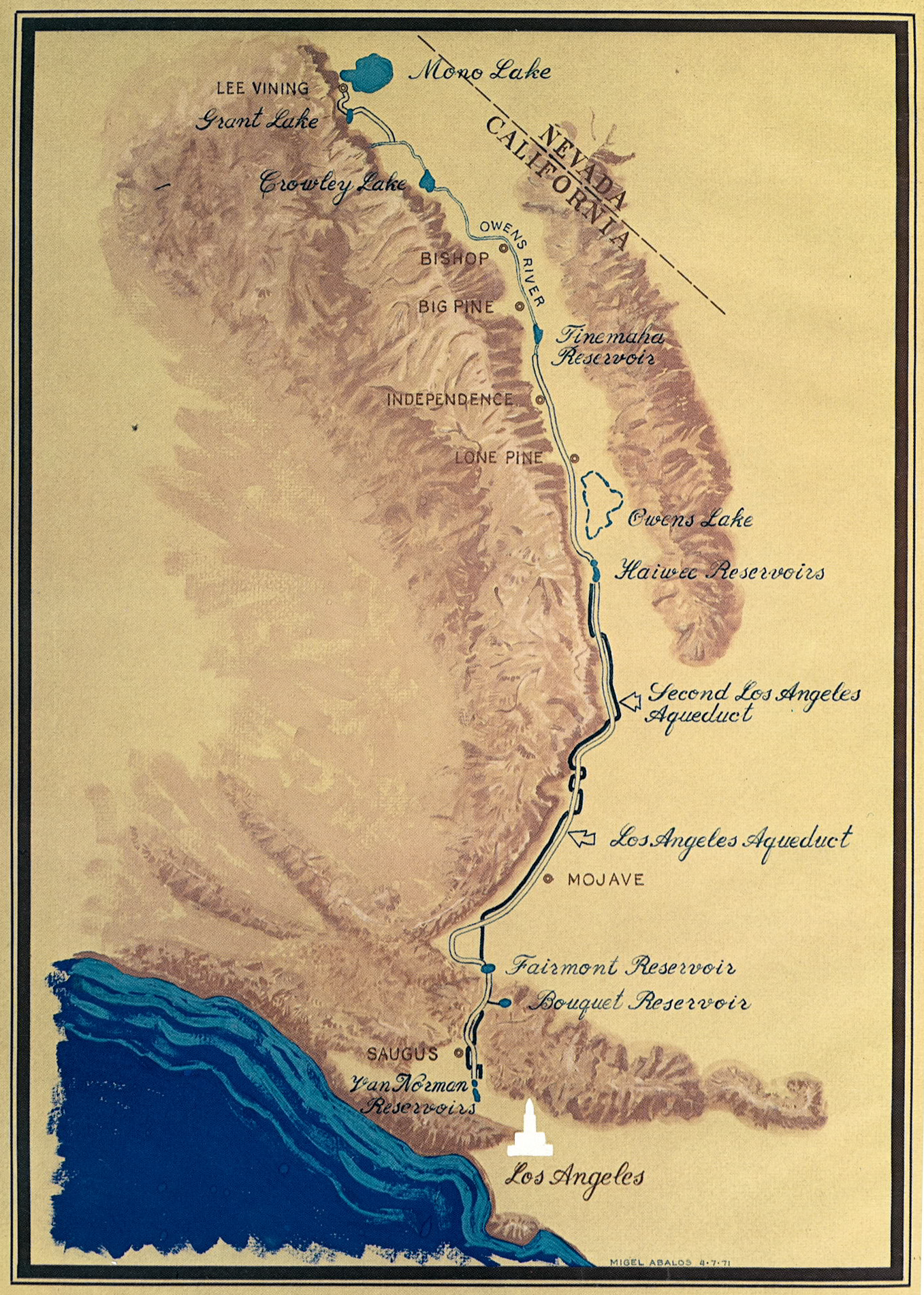 Map of the Los Angeles Aqueduct — its route and facilities, in eastern and southern California.